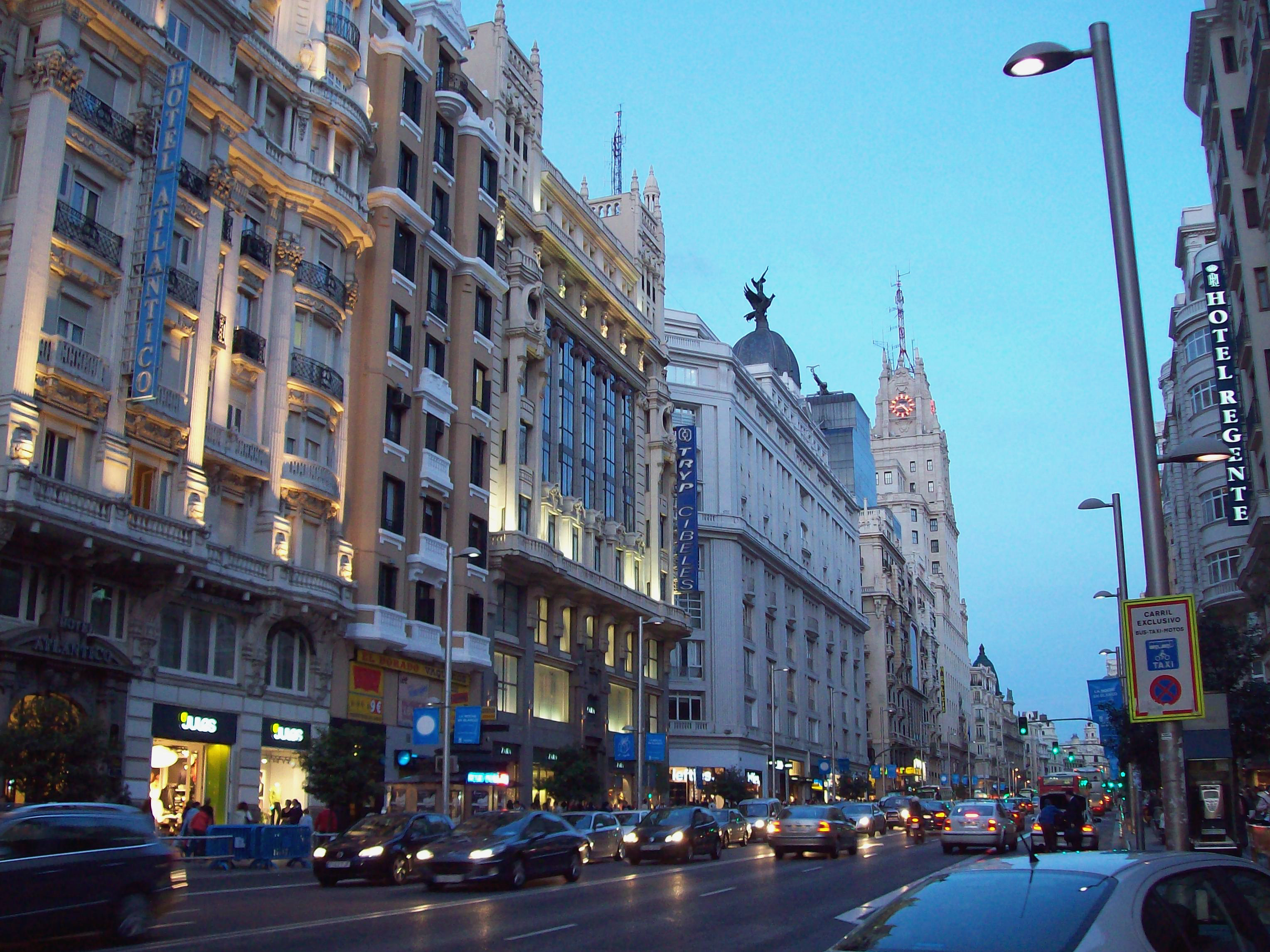 Gran Vía, a downtown avenue in Madrid (Spain), at dusk.